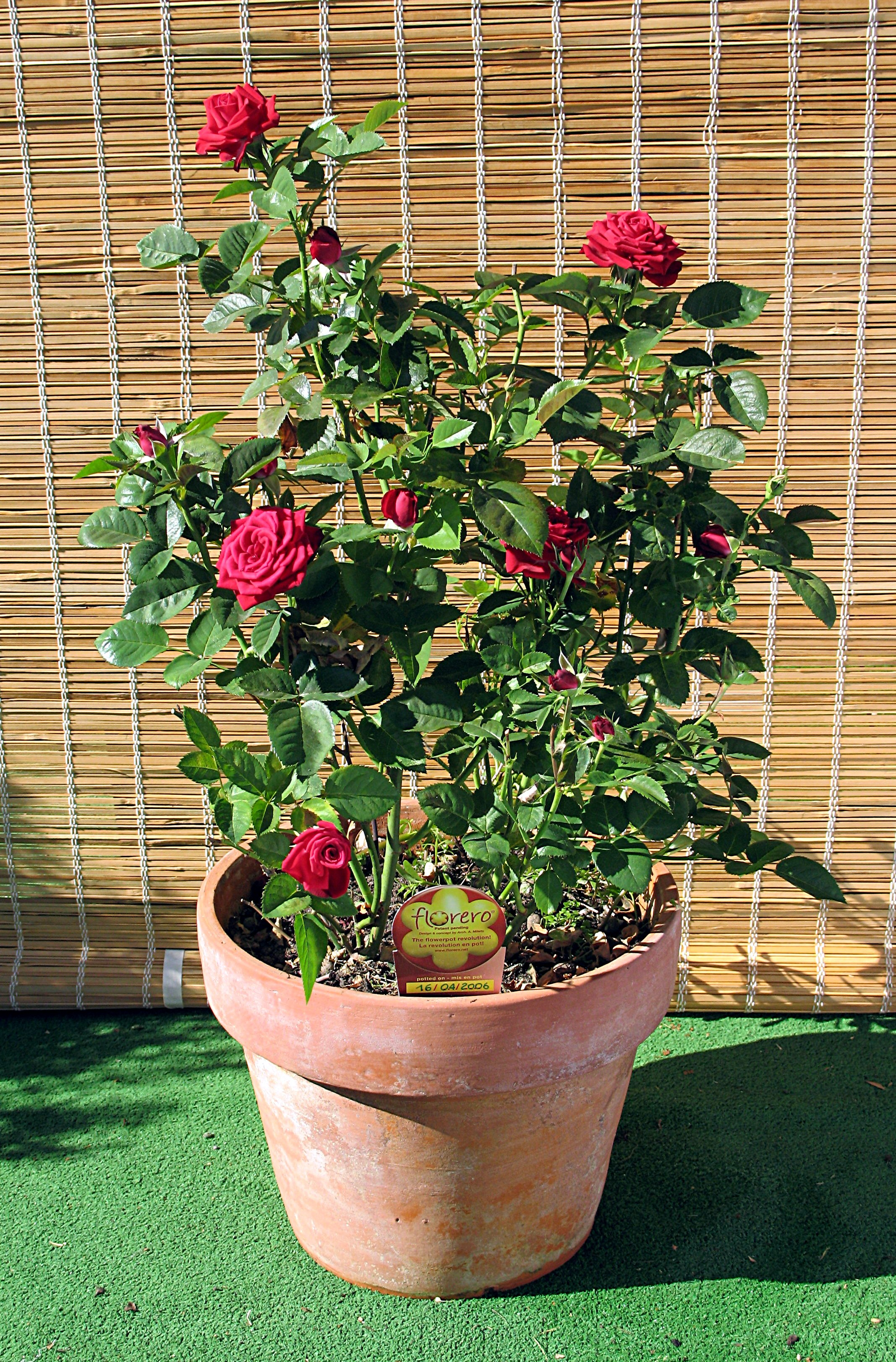 "Meillandine" Rose in clay garden pot. Equipped by Florero®